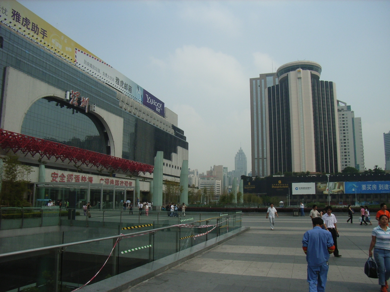 深圳地鐵 沿線各站風景 Shenzhen, China (Author is SAMZ).